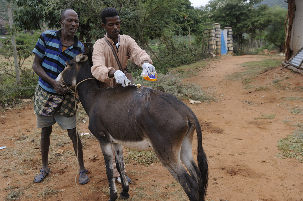 A veterinary technician in Hawaye Kebele Ethiopia sanitizes an infection on a donkey and educates the owner